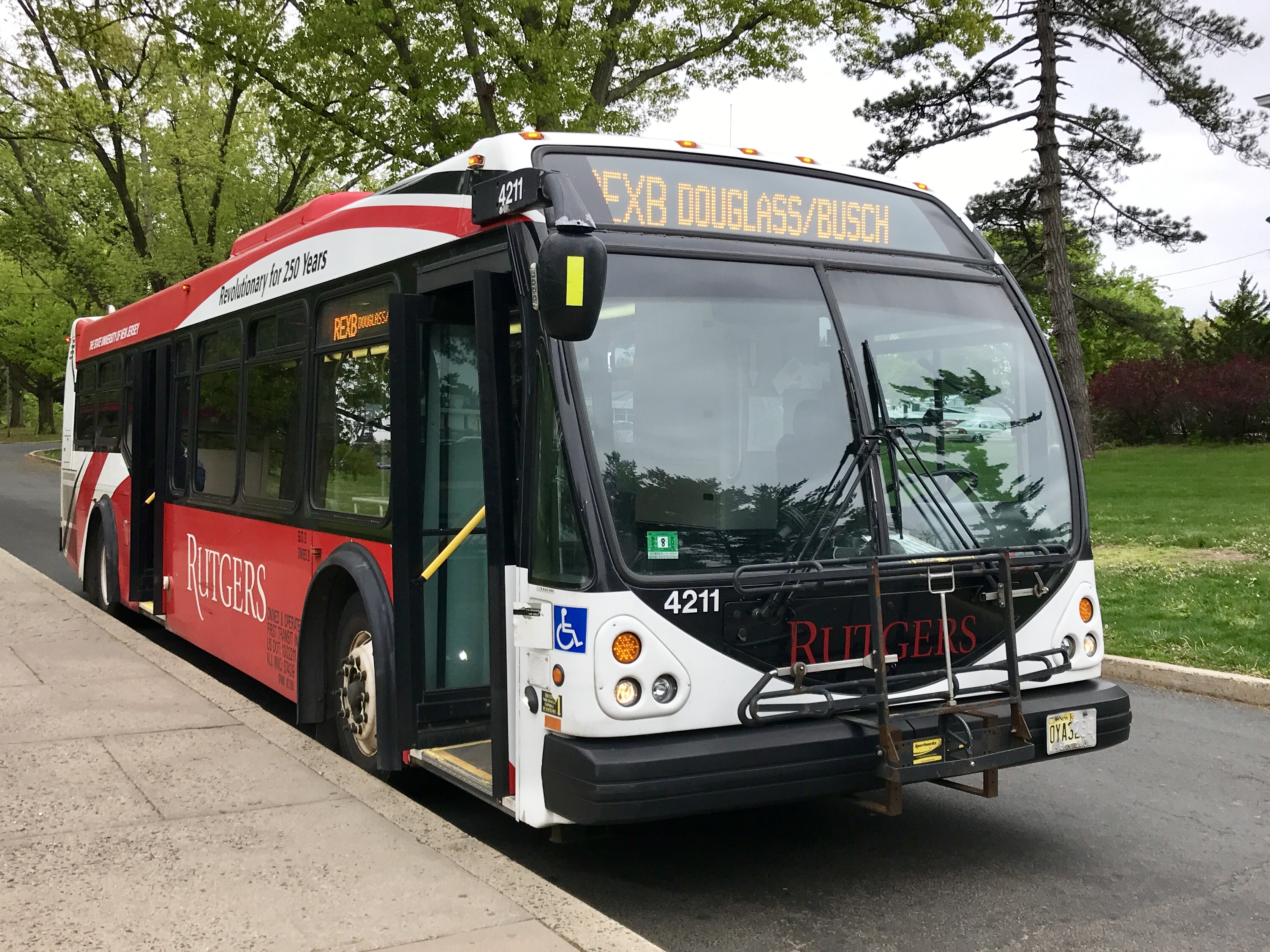 This is a 2011 ElDorado Axess Bus at Red Oak Lane, New Brunswick